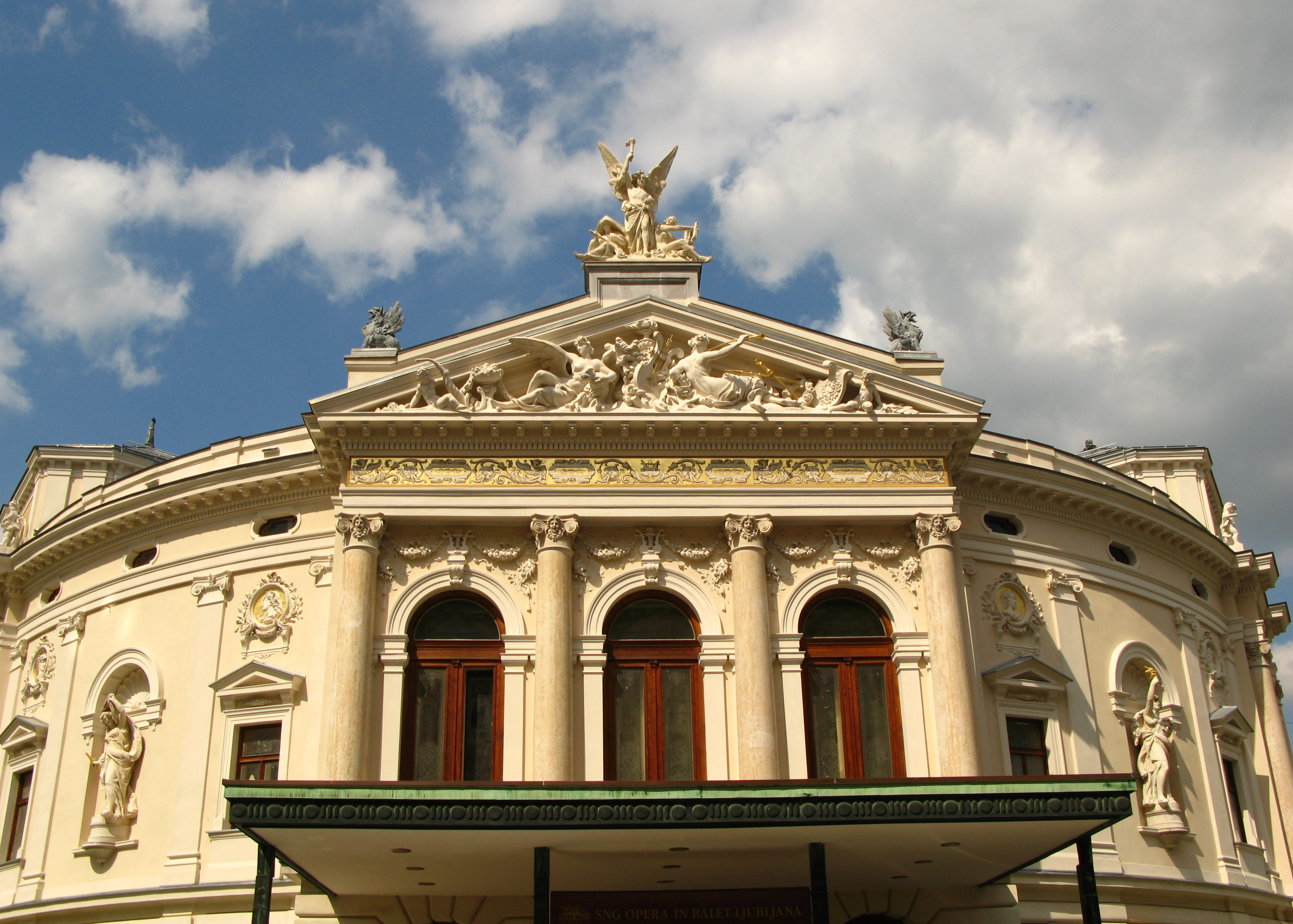 Opera in Ljubljana, Slovenia.